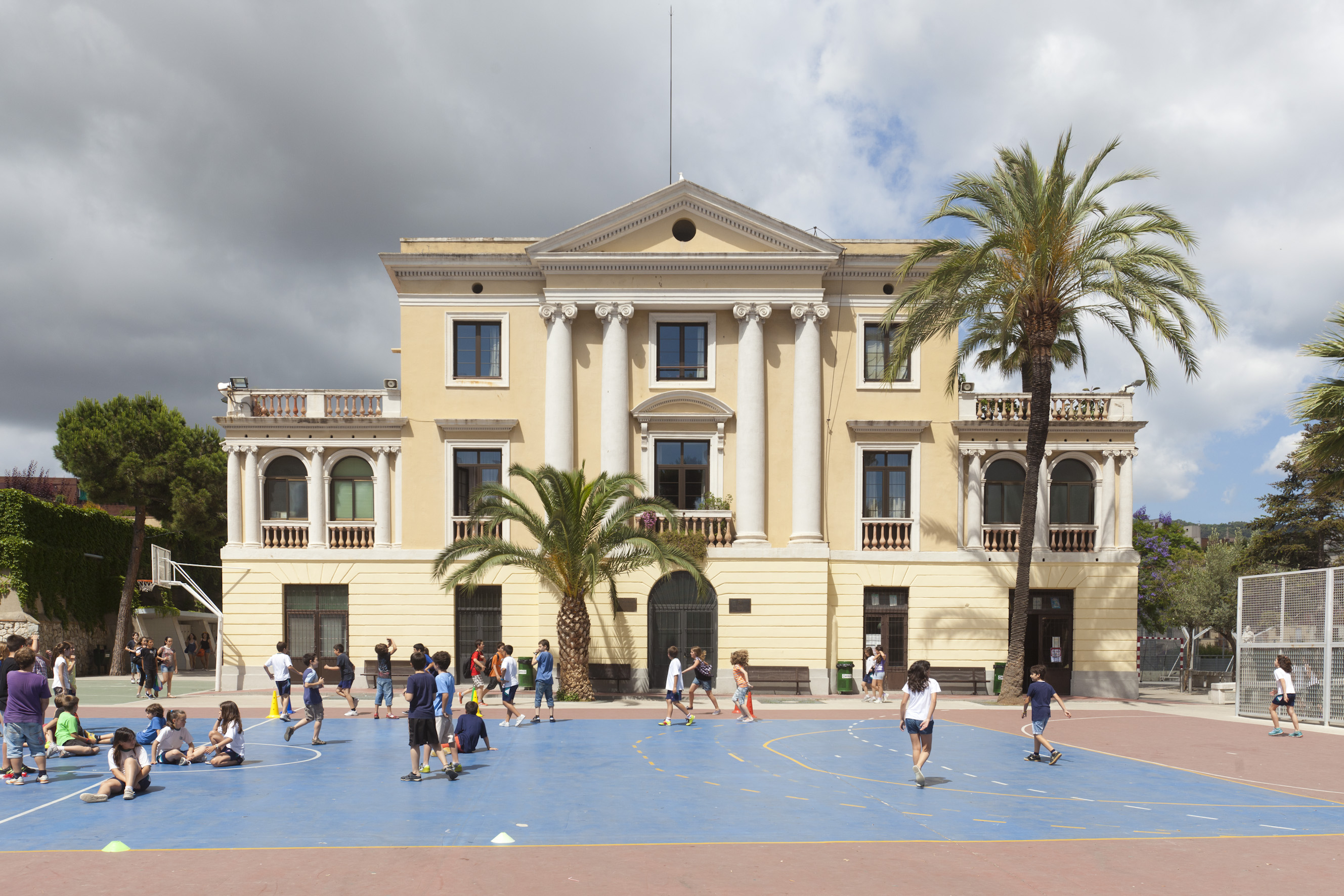 Historical Routes at the Horta-Guinardó District Administration in Barcelona This image was provided to Wikimedia Commons by the Horta-Guinardó District Administration in Barcelona as part of an ongoing cooperative project with Amical Viquipèdia. English | +/−